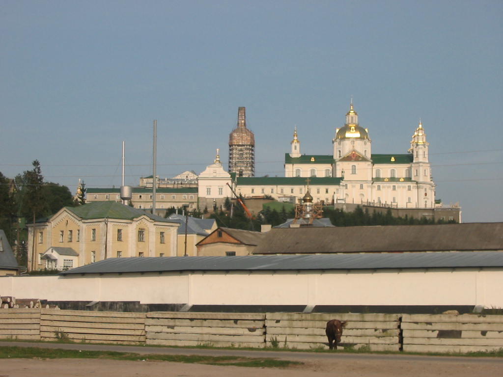 Pochayiv, Ternopil oblast, western Ukraine